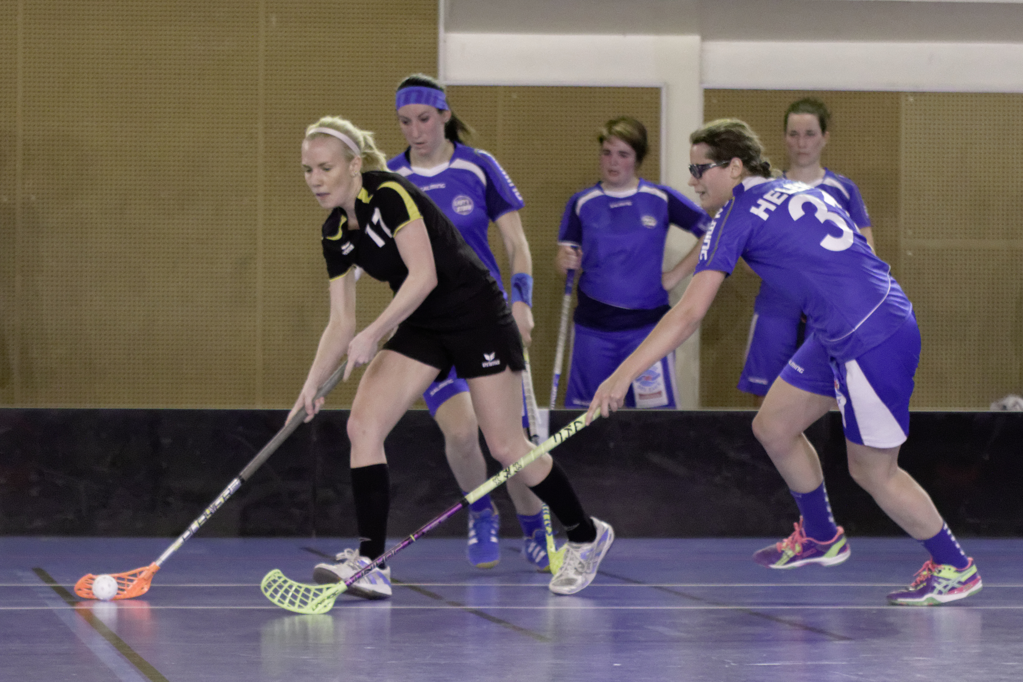 French Women's Floorball Championship, 11 April 2015. Panam United vs Lady Storm.